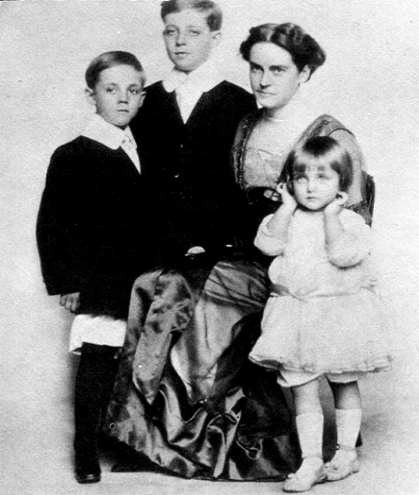 Portrait of Elizabeth Jayne “Bessie” Peters, her two sons Frederick Charles & John Stuart and daughter Carole Lombard (circa 1910's).